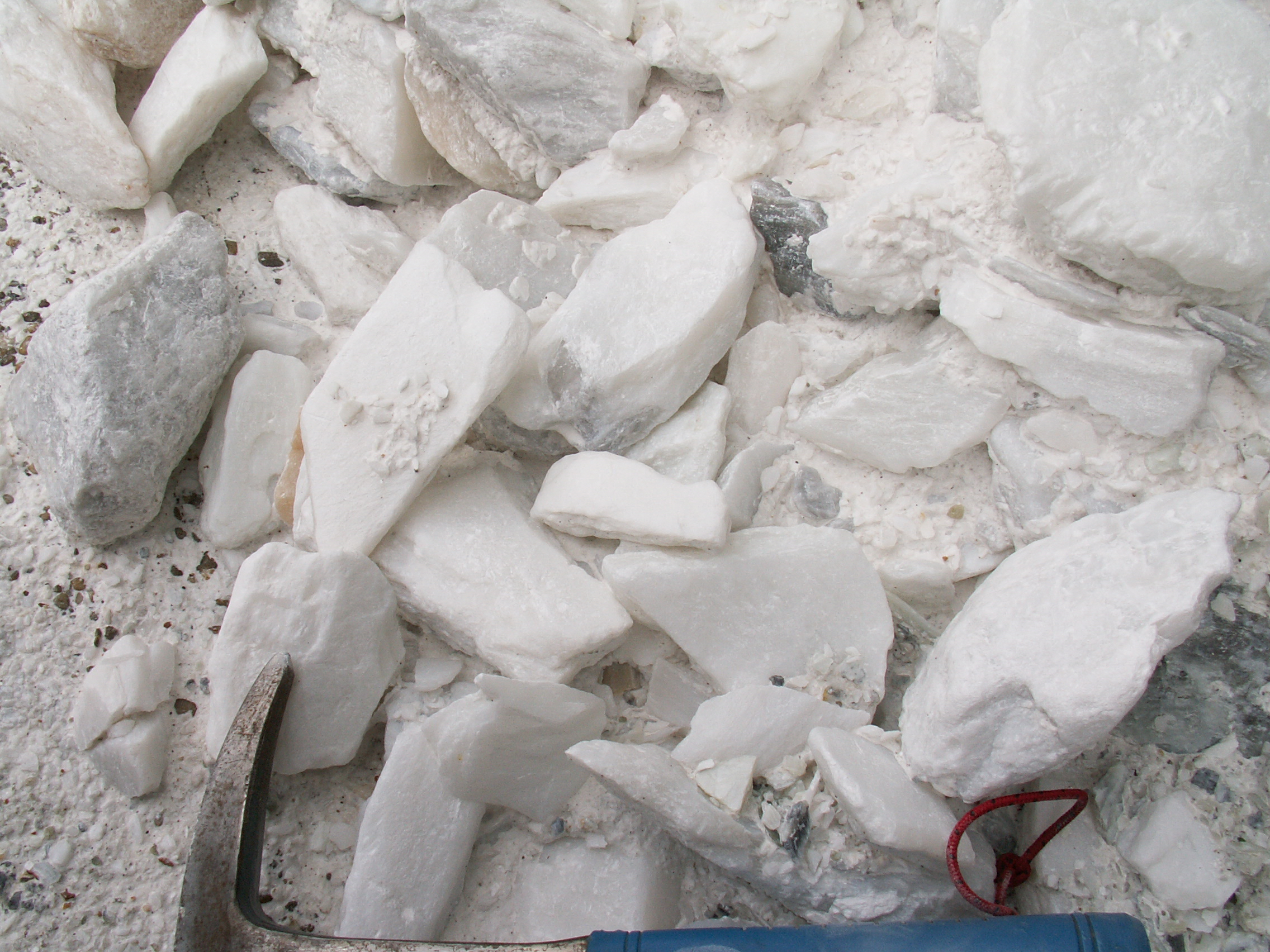 Talc in warehouse of mining company Genes, a.s., deposit in the Hnúšťa-Mútnik, Slovakia. Hammer is 28 cm long.